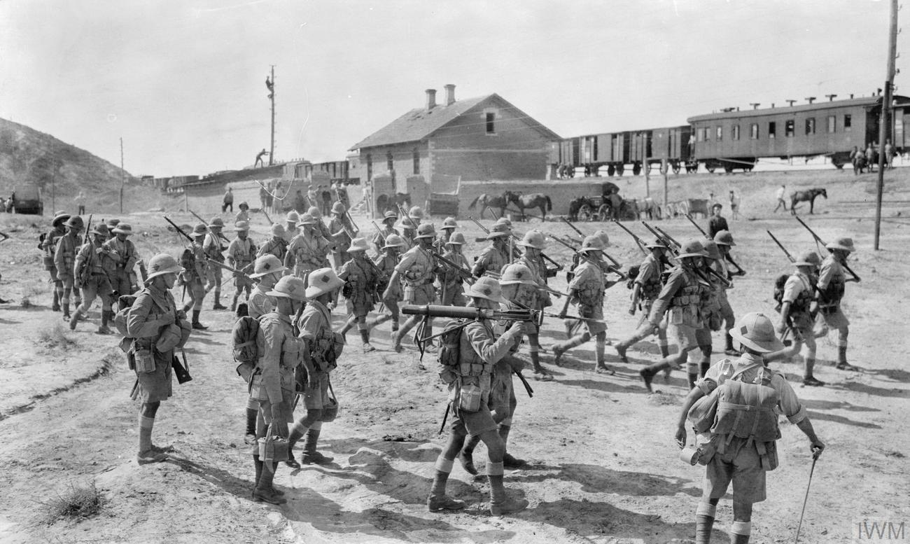 Infantry of the North Staffordshire regiment at Baladajar station following the failed attempt to hold Baku in Persia in 1918